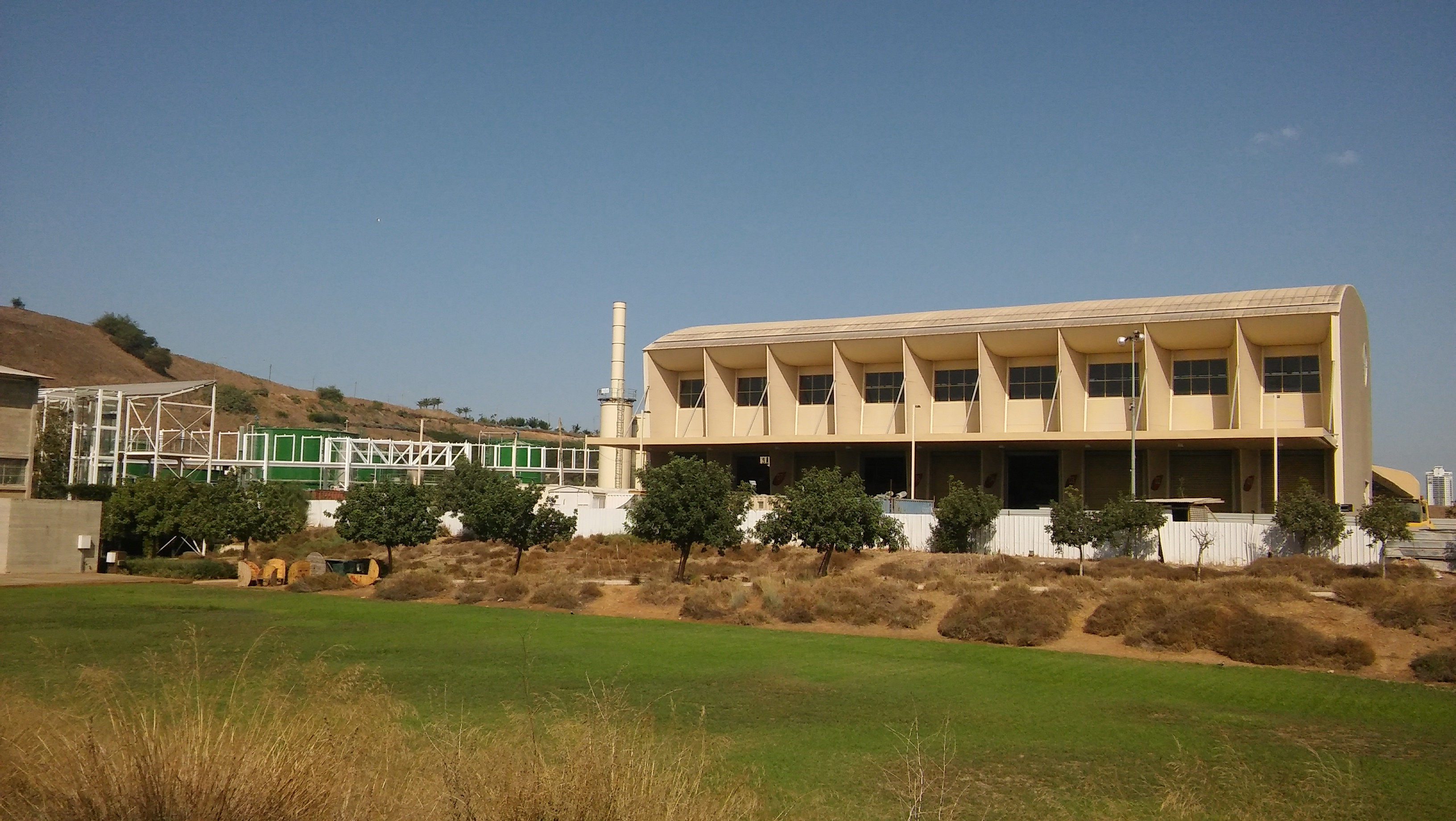 RDF plant